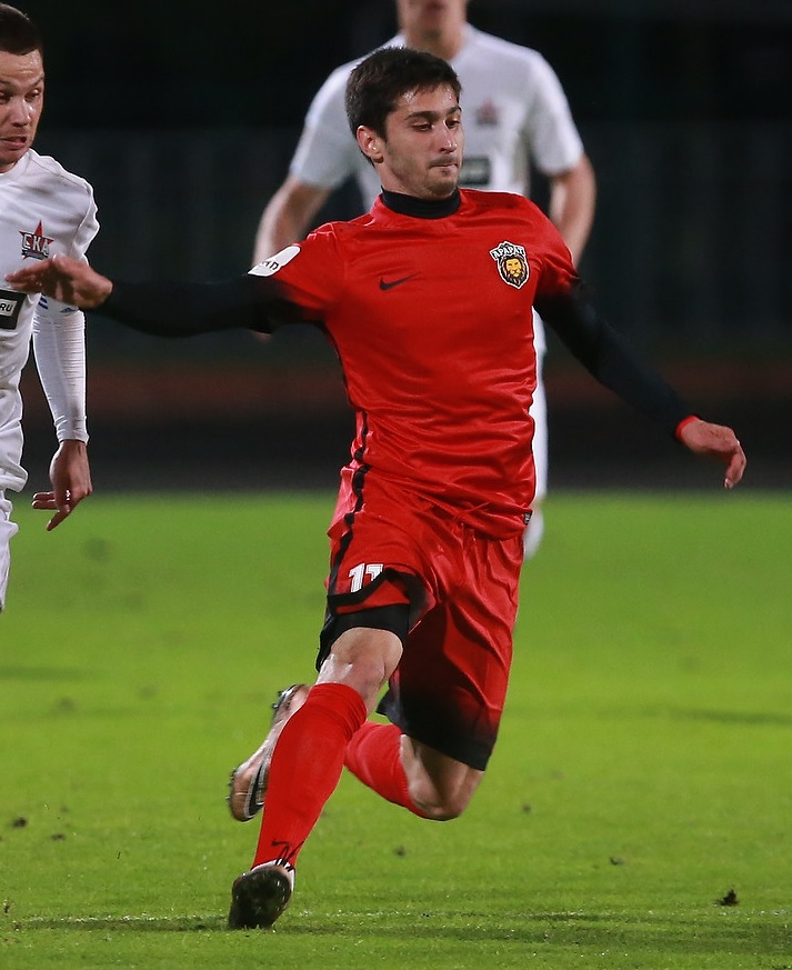 Taymuraz Toboyev with FC Ararat Moscow in a Russian Cup game against FC SKA-Khabarovsk.